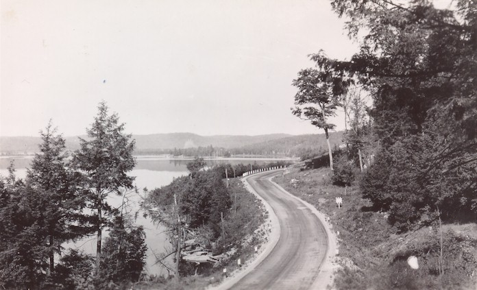 Highway 60 in Algonquin Park, possibly Cache Lake or Lake of Two Rivers